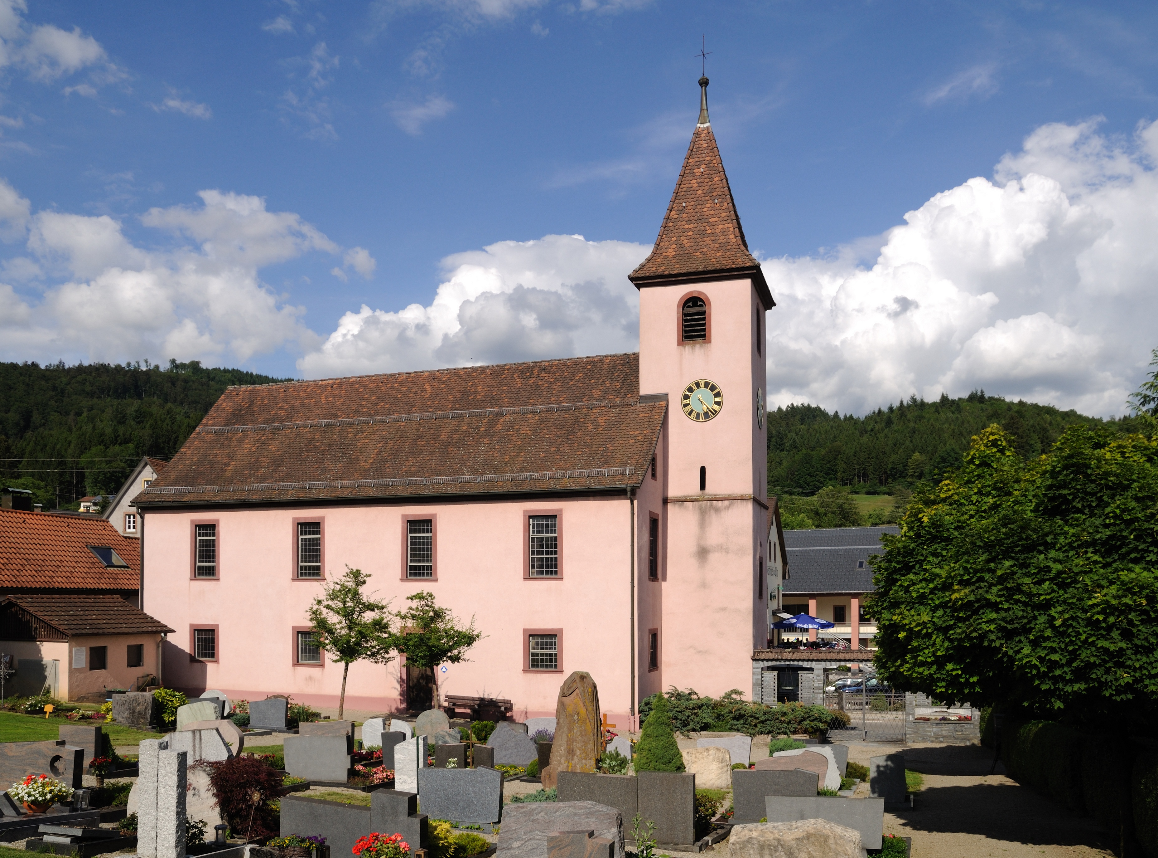 Hasel: Protestant Church